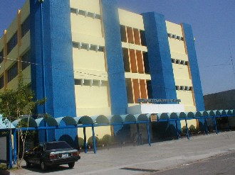 Edificio de aulas UPES